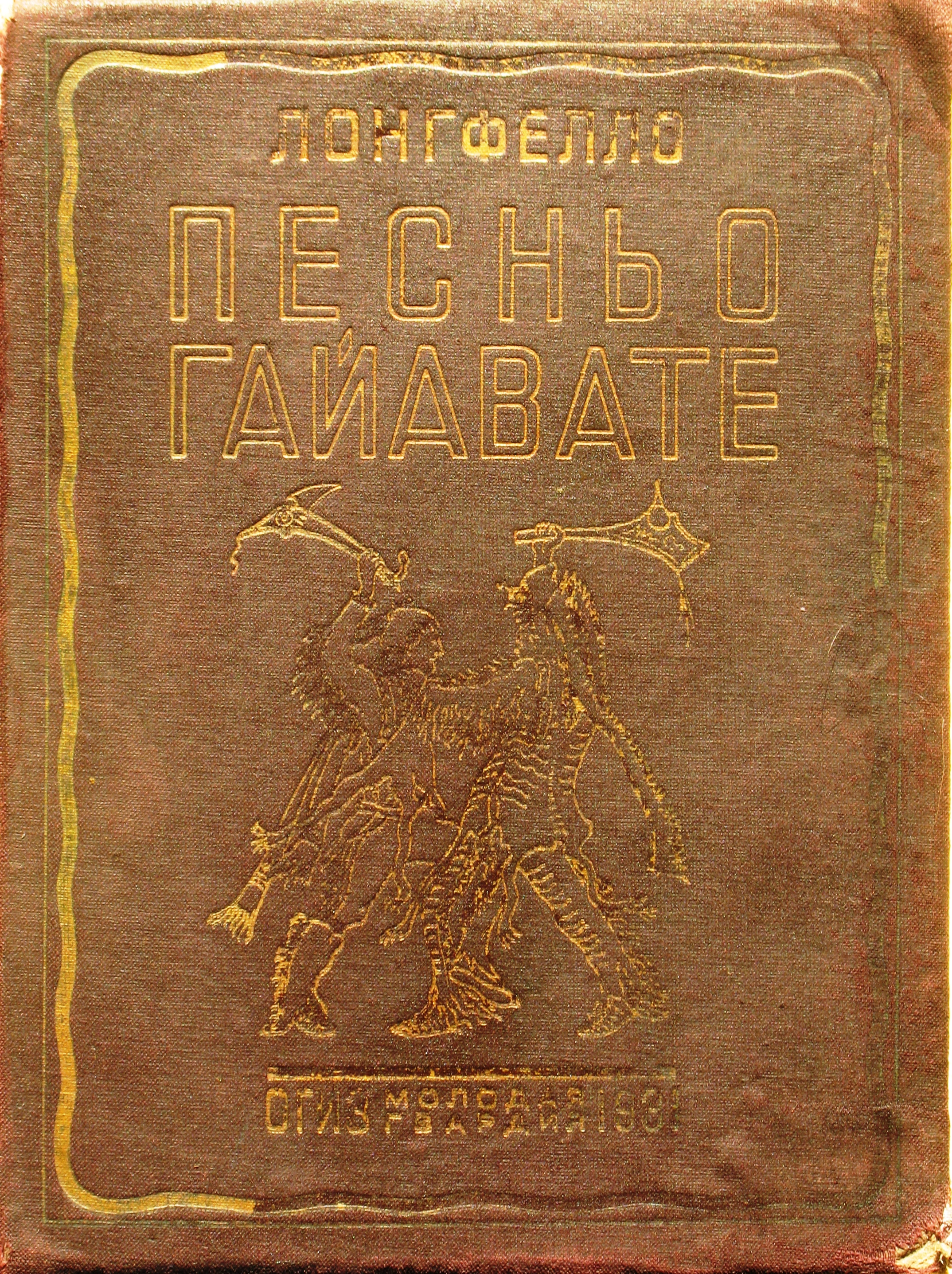 Henry Wadsworth Longfellow. The Song of Hiawatha. Moscow, OGIZ, 1931.